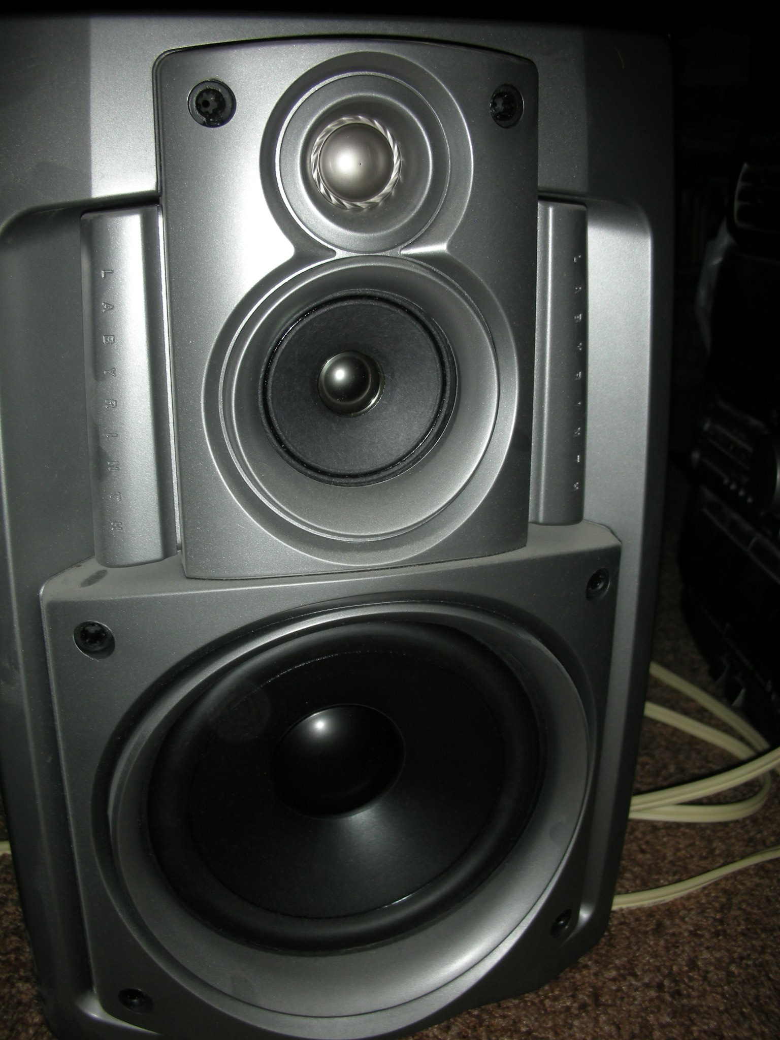 The speakers that I have used in my experiment